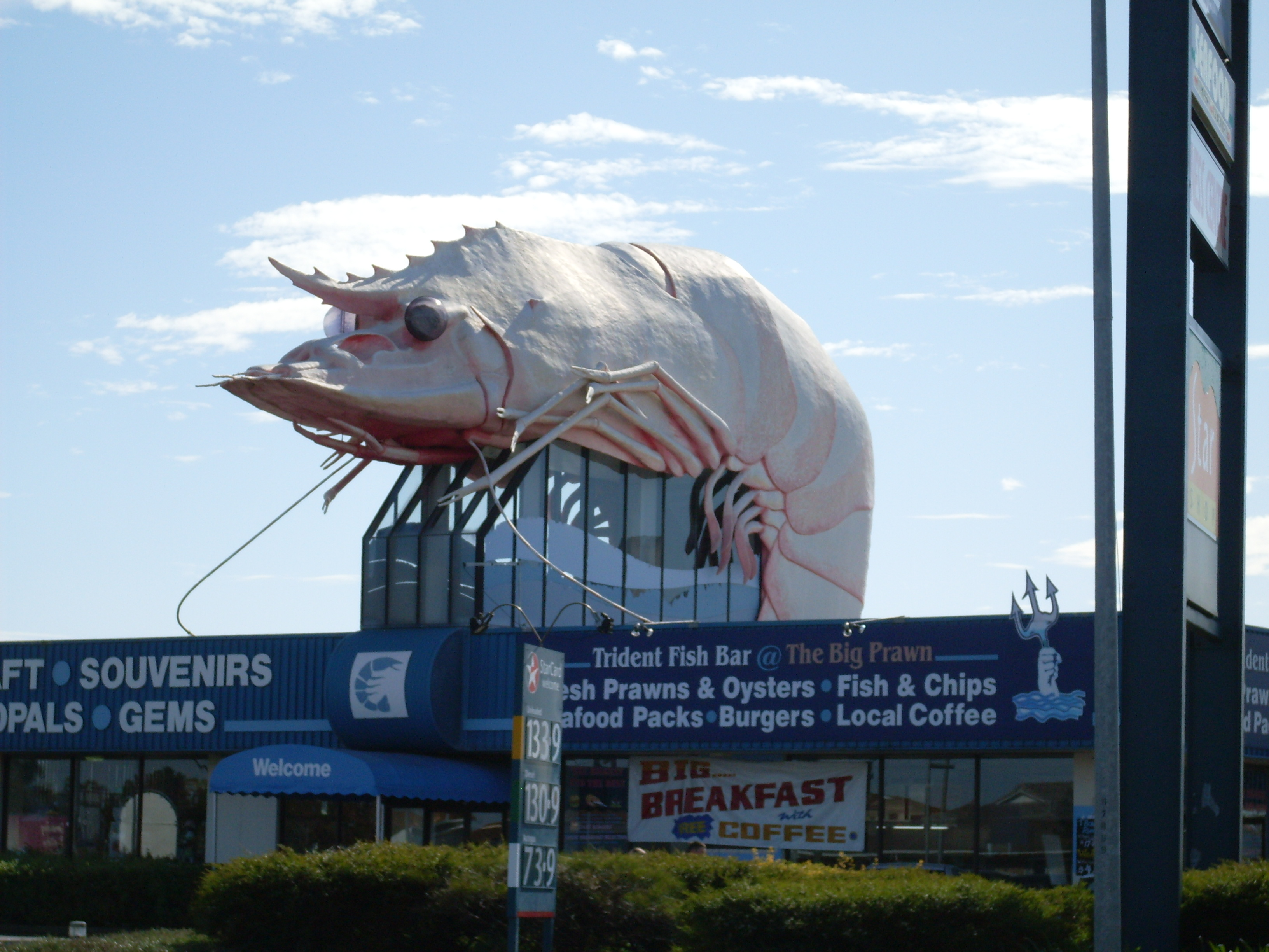 The Big Prawn prior to the destruction of the building supporting it.